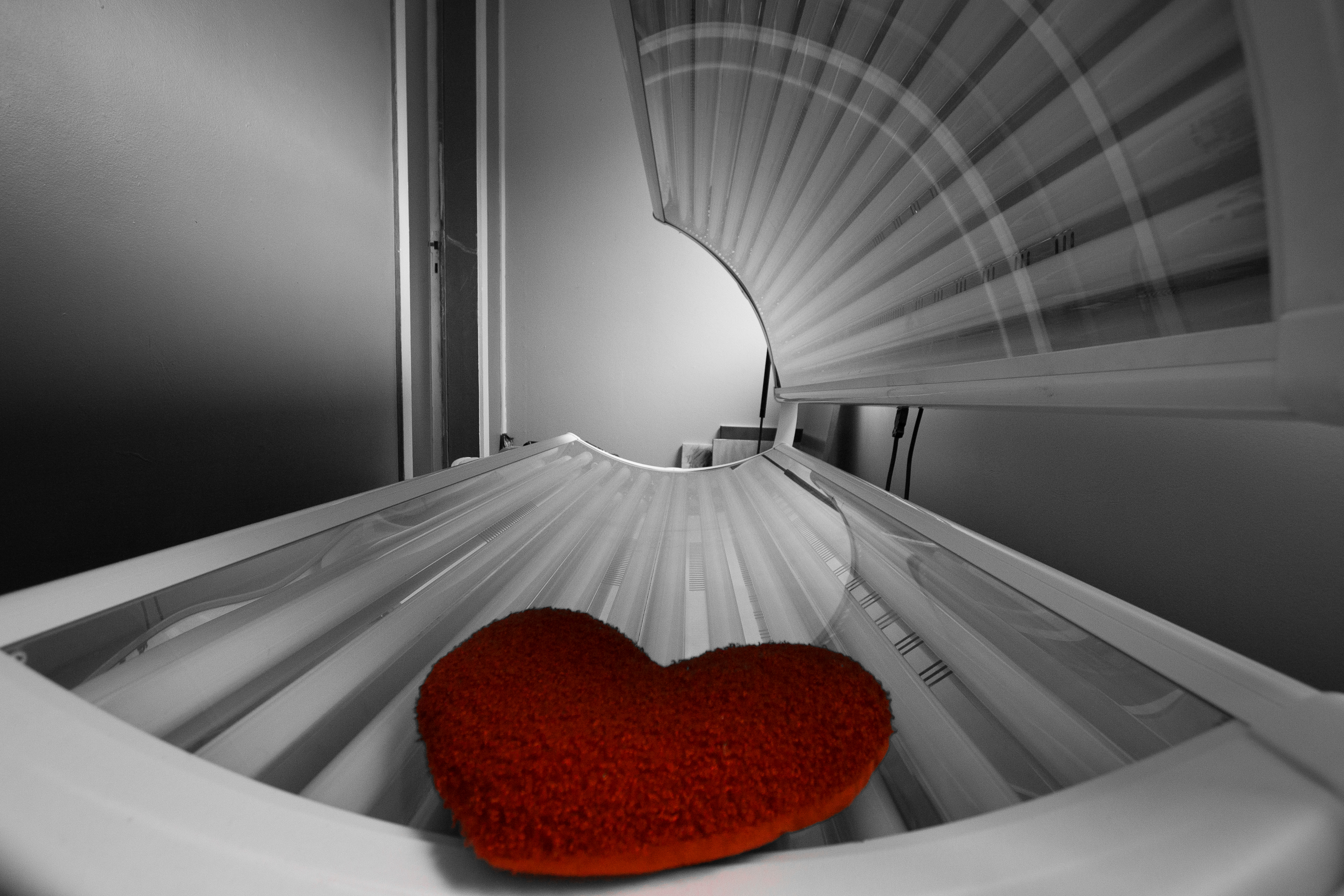 Low-pressure tanning bed